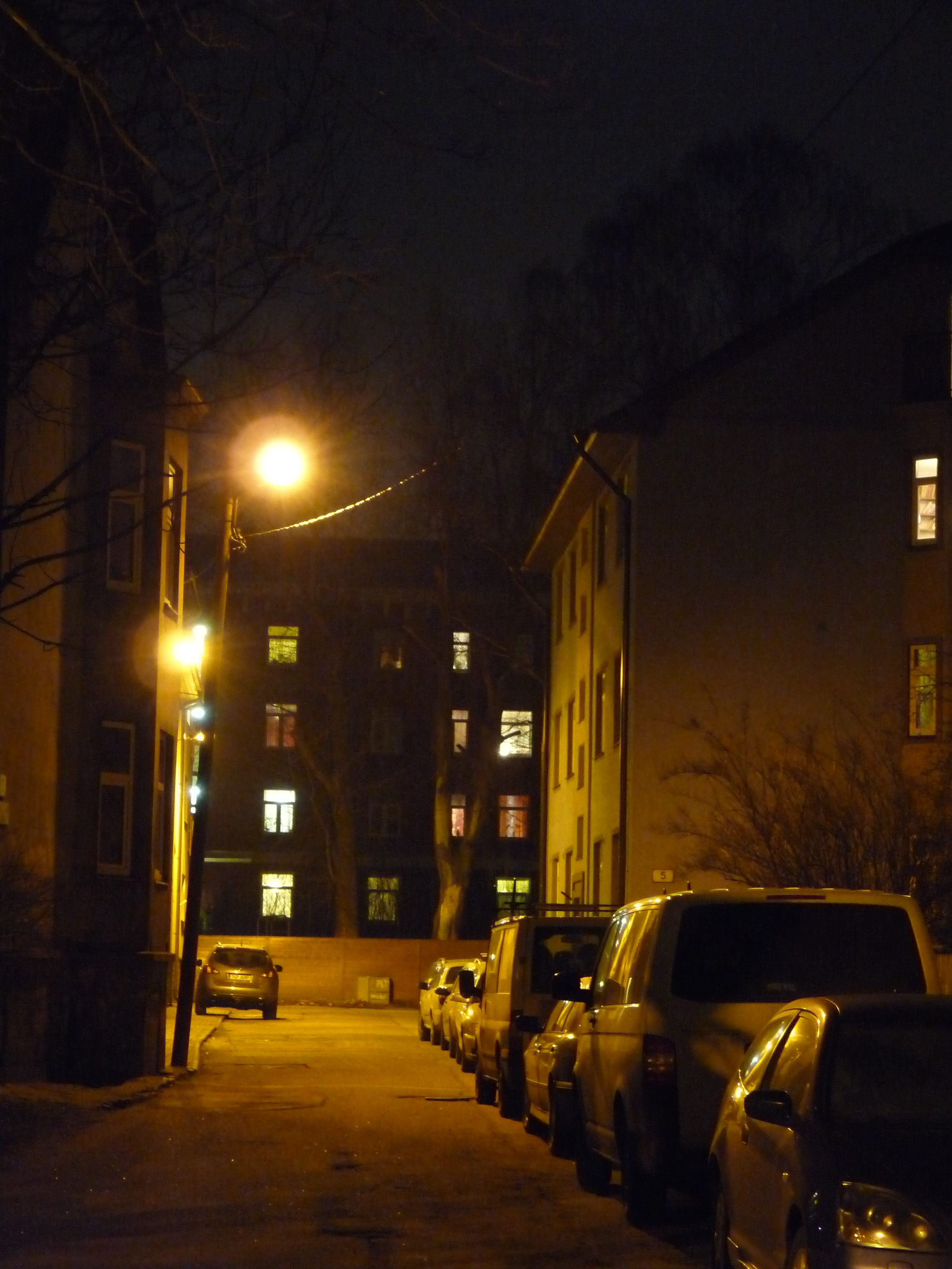 Pilve street in Tallinn, Estonia